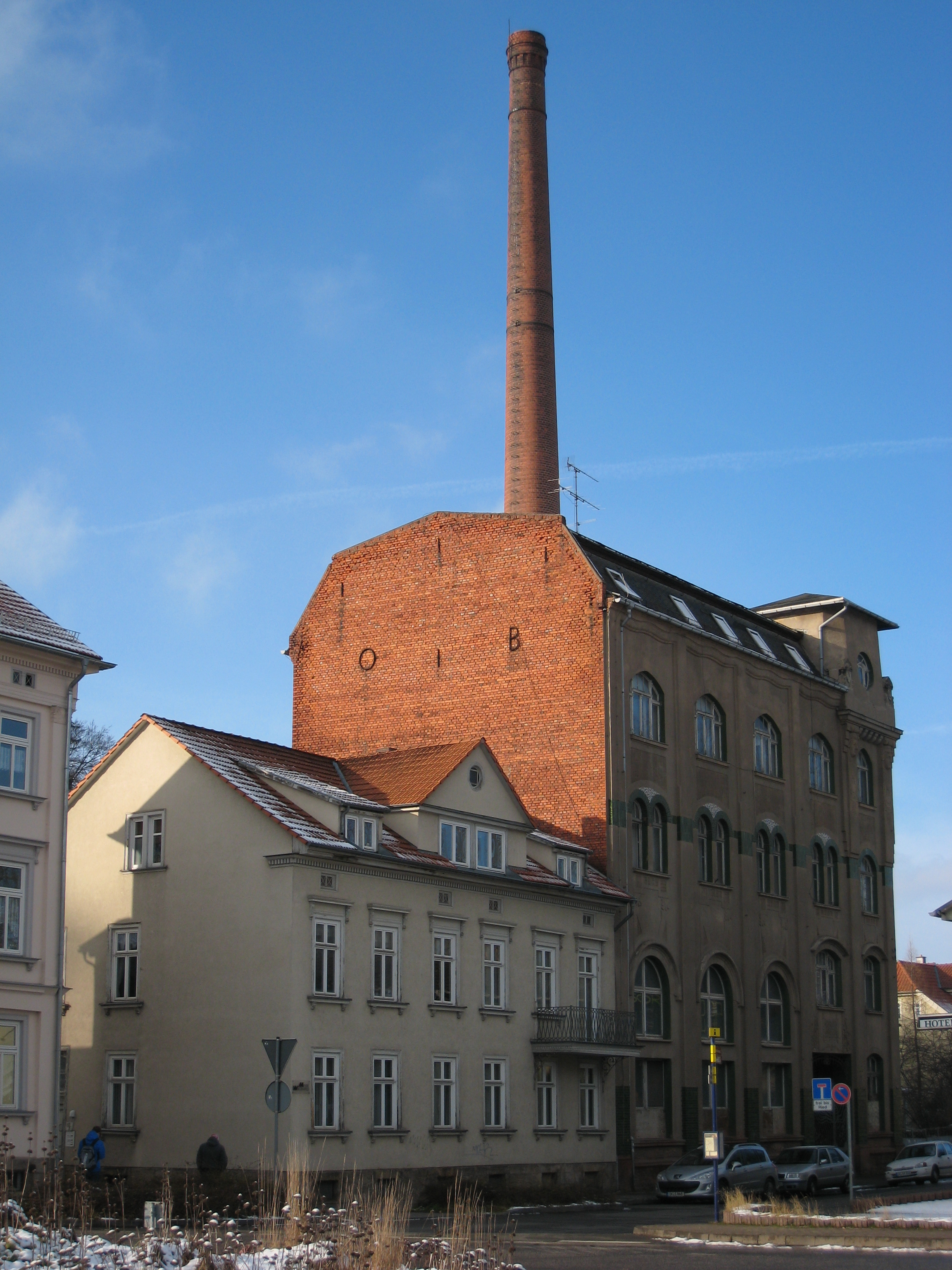 Former brewery Otto Bahlsen in Arnstadt, Vor dem Riedtor